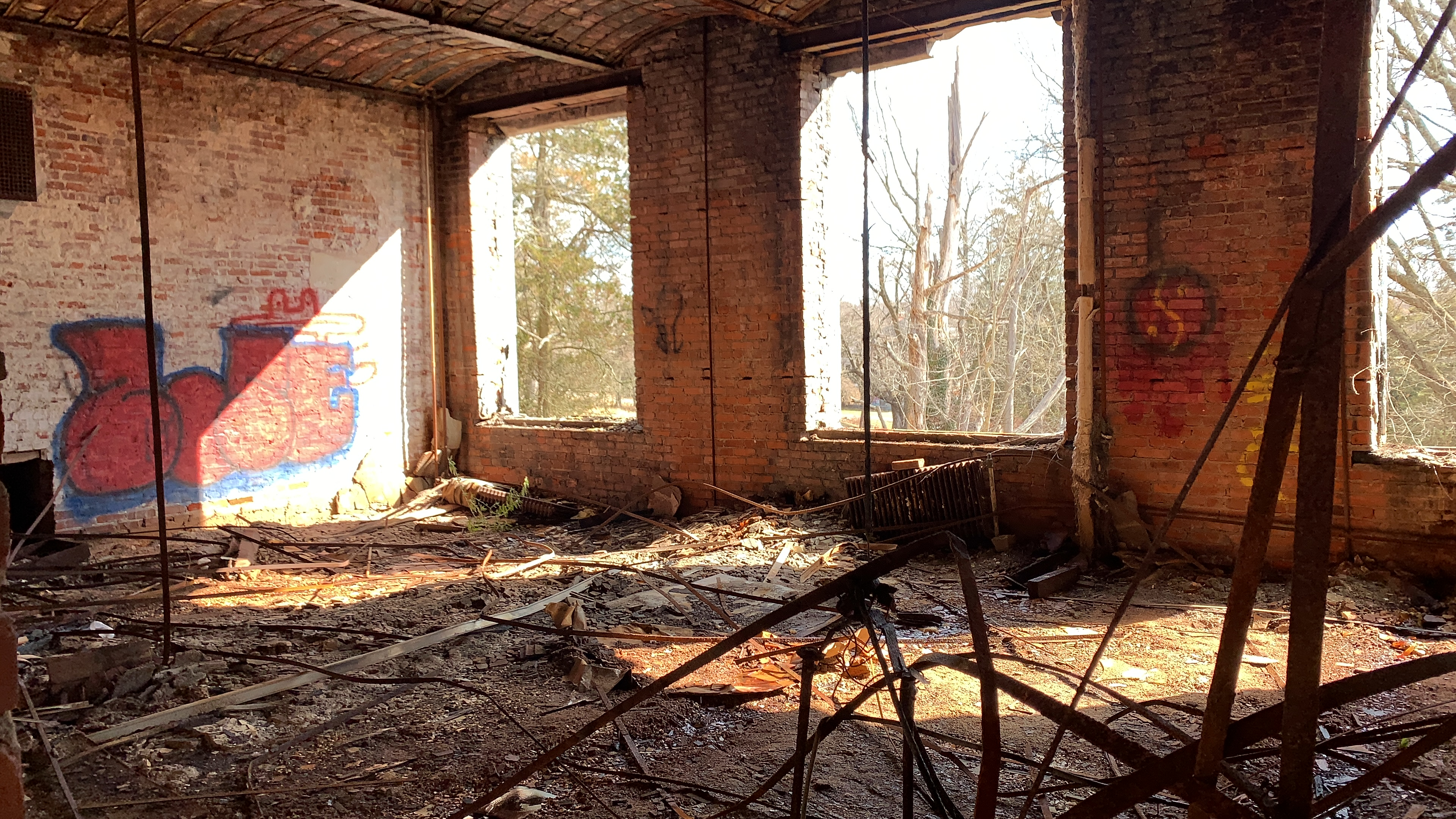 Burned Classroom